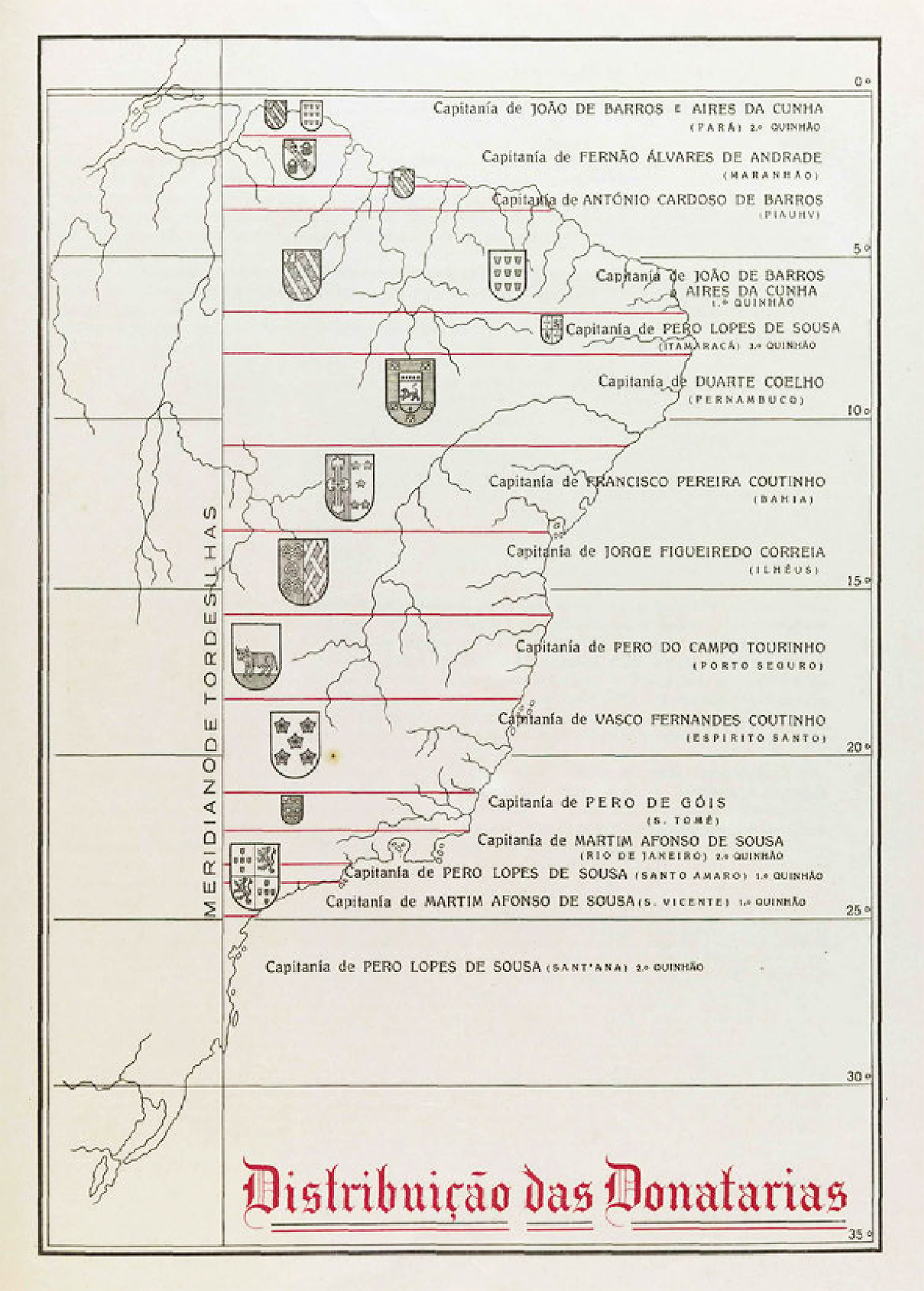 Hereditary Captaincies - Brazil - Map - 1926